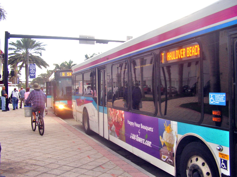 A couple of Metro buses in Miami Beach, Florida